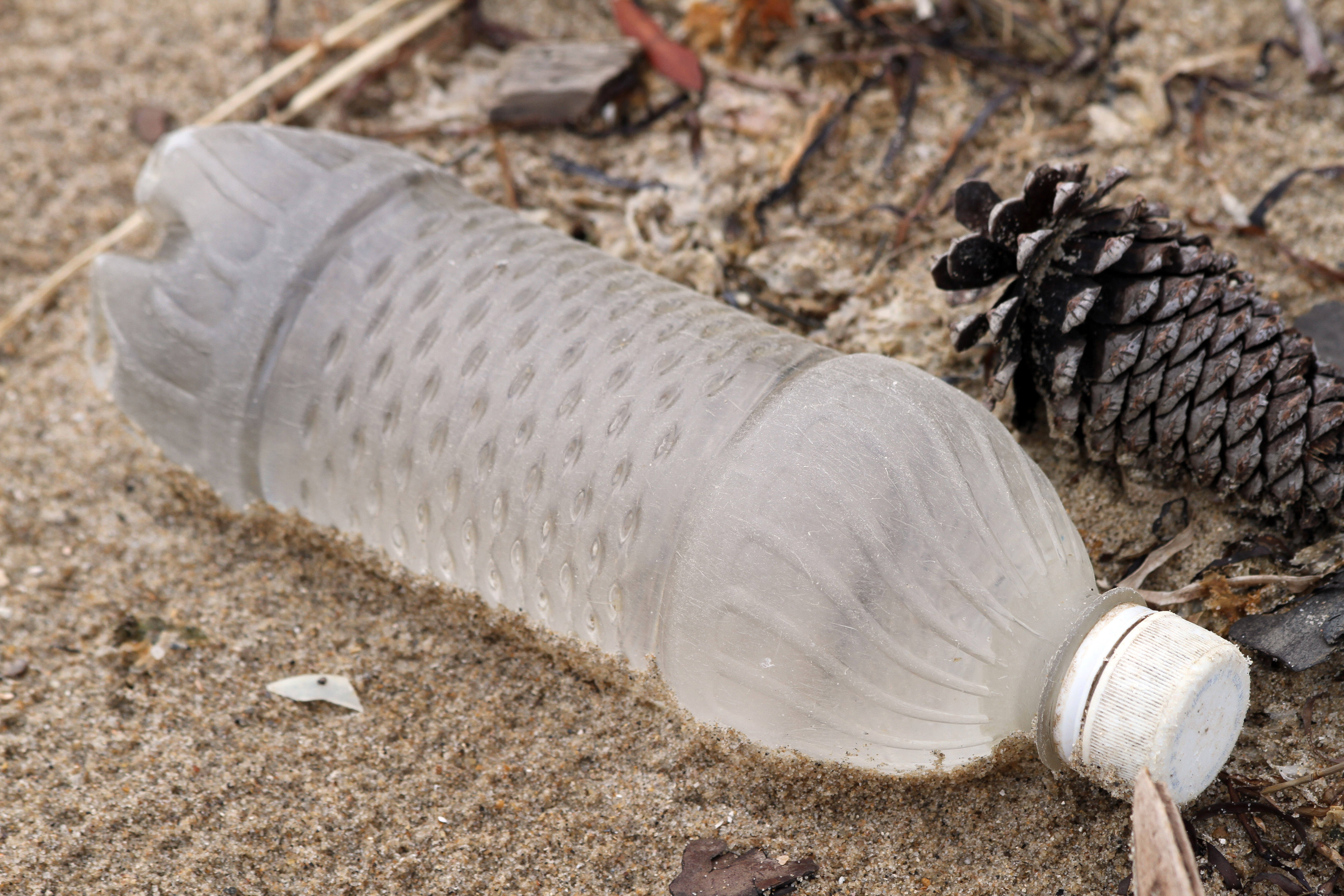 PORTSMOUTH, Va. -- According to the 23 employees and family members from the Norfolk District participating in this year's Clean the Bay Day, plastic bottles was the #1 item they bagged and tagged. Clean the Bay Day is a statewide initiative organized by the Chesapeake Bay Foundation, in conjunction with municipalities, businesses and government agencies working together to restore the Chesapeake Bay and its rivers and streams. Every year since 1989, thousands of citizens throughout the Commonwealth of Virginia have dedicated their time to clear litter from waterways. Norfolk District employees volunteered three hours of their time today to remove debris from the shorelines of the Craney Island Dredged Material Management Area, which is operated and maintained by the district. CIDMMA is a 2,500-acre confined dredged material disposal site on the north side of Portsmouth, Va. It serves as an economical and environmentally sustainable repository for material dredged within the federal waterways of the Hampton Roads harbor. (U.S. Army photo/Pamela K. Spaugy)